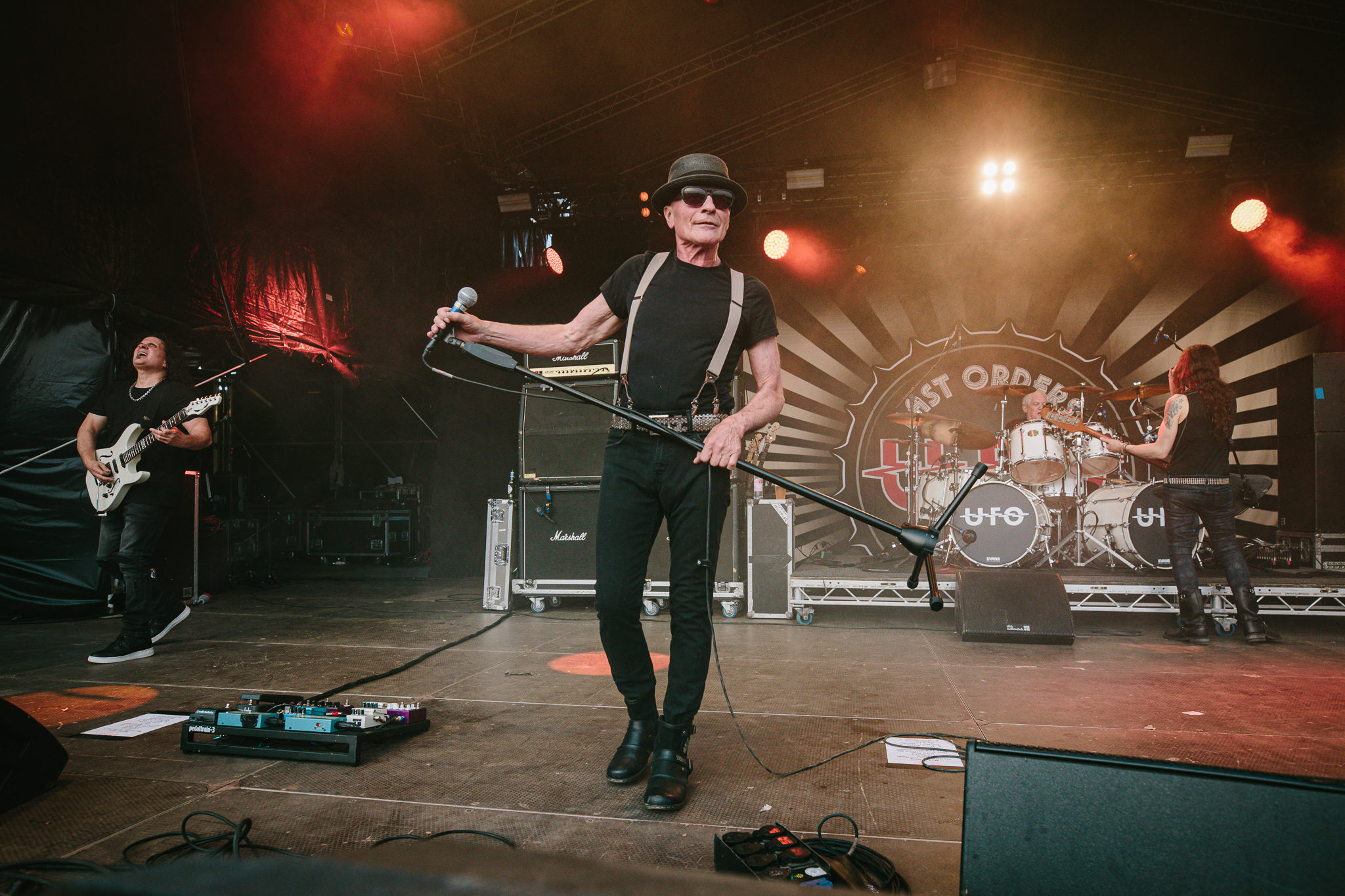 UFO at Burg Herzberg Festival 2019